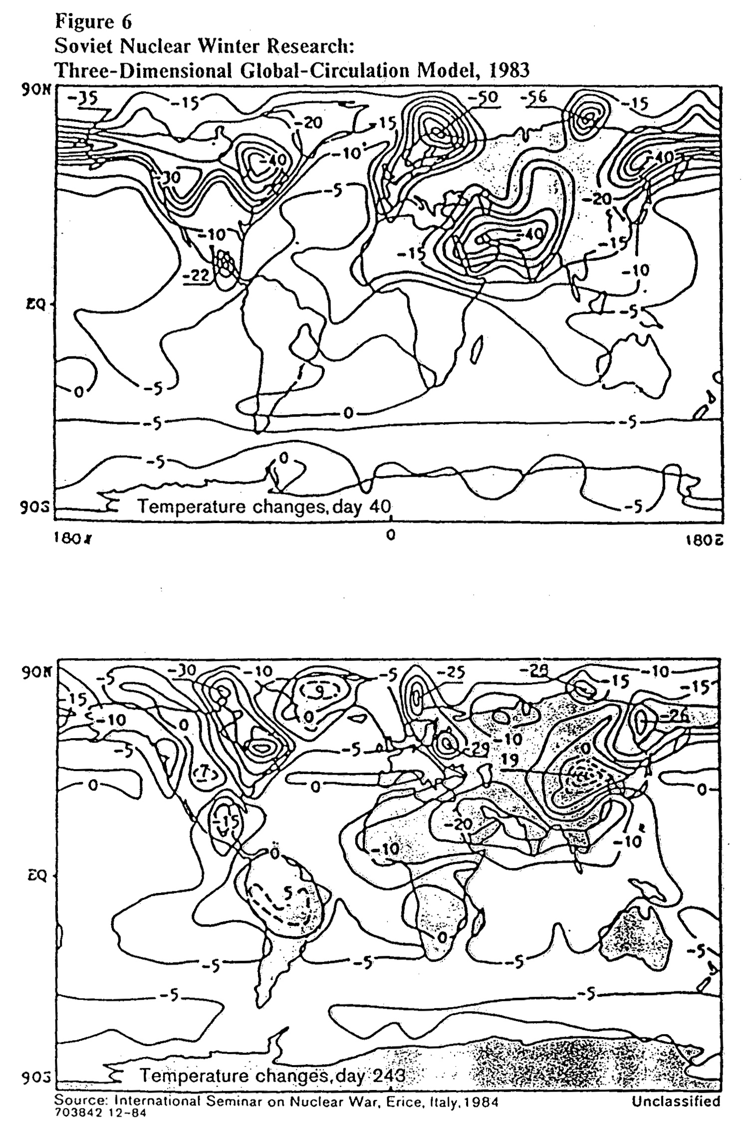 CIA maps showing global temperature changes after a nuclear winter. Top shows day 40, bottom shows day 243 after the nuclear exchange. Rotated and cropped with GIMP.